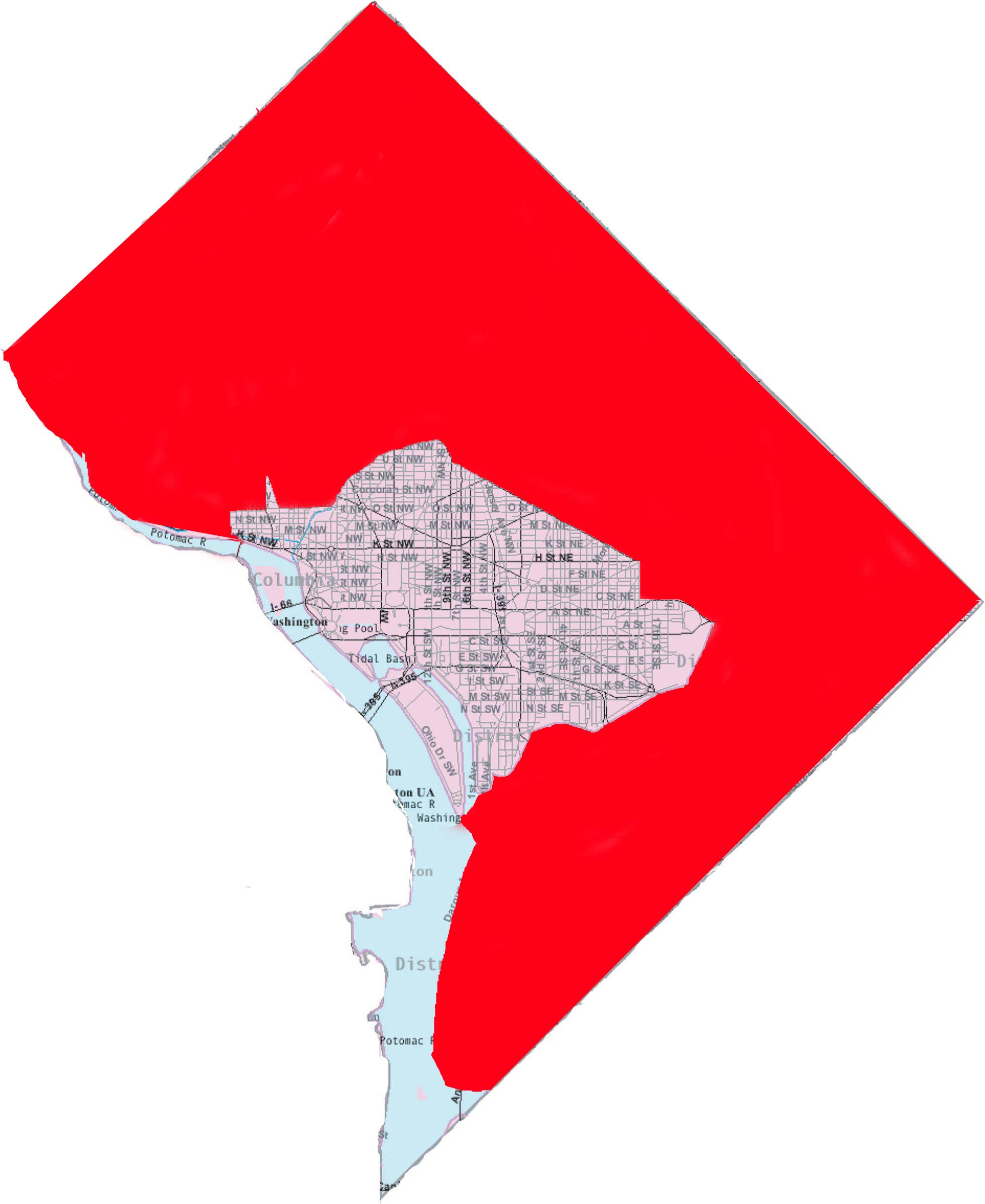 This image is a modified version of a self-generated reference map from the U.S. Census Bureau's American Factfinder at by Wikipedia user Msclguru.